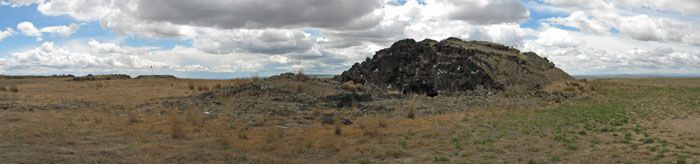 The top exterior view of Wilson Butte Cave in Jerome County, Idaho. This is a National Historic Landmark. Wilson Butte Cave protrudes like a rocky bubble on a vast, level sea of ancient lava.